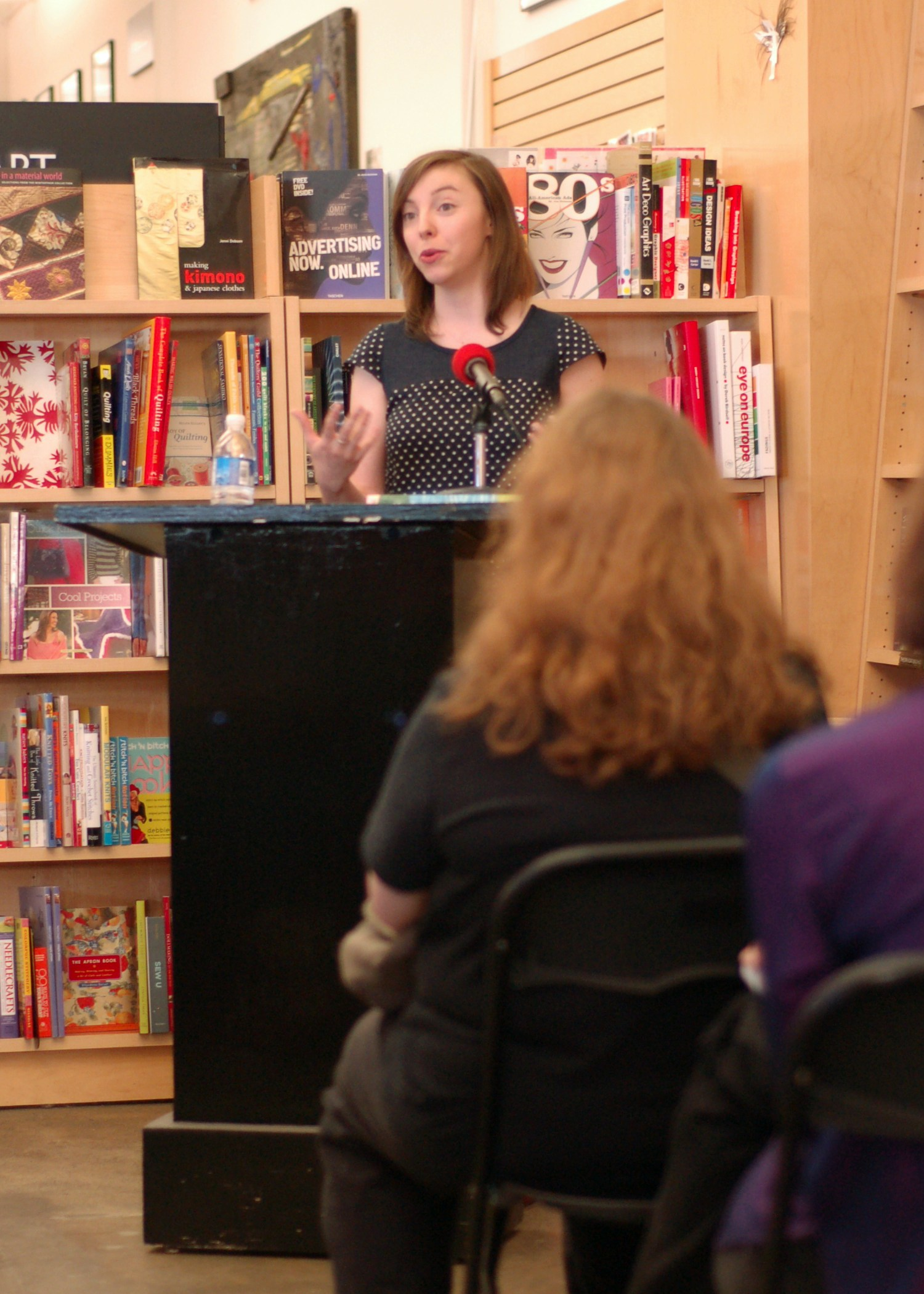 Clotilde Dusoulier in Berkeley, California on a book tour for her book Chocolate and Zucchini: Daily Adventures in a Parisian Kitchen